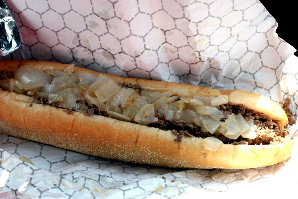 Dalessandro's Steaks cheesteak sandwich